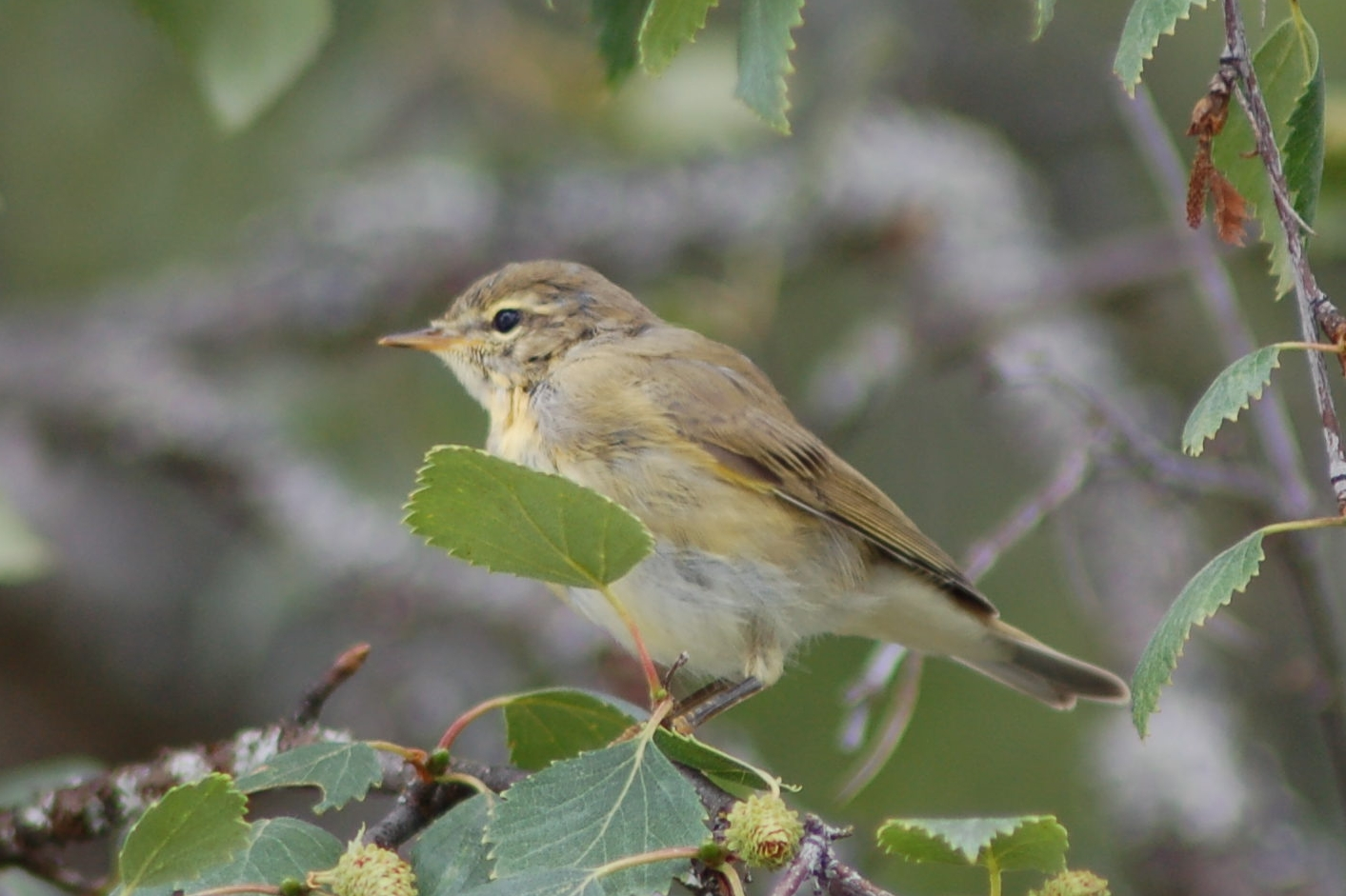 A juvenile Chiffchaff (Phylloscopus collybita) sitting in a birch tree in Latikberg, west of Vilhelmina in Sweden. Since I'm not a ornithologist myself I wasn't entirely sure if this was a Chiffchaff or a Willow Warbler but I asked around the Swedish Ornithology Association